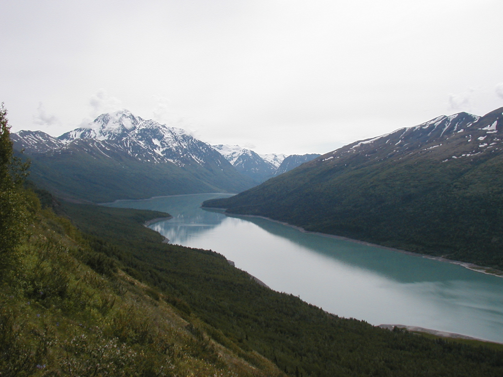 Eklutna Lake and Bold Peak, Chugach State Park, Alaska, United States. Taken from above the north end of the lake, looking roughly south